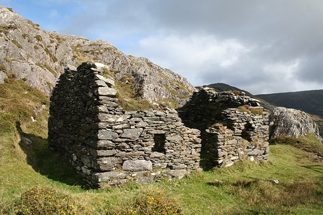 Old building, Mountain Mine Ruins of a small mine building adjacent to Man-Engine Shaft engine house, possibly a storehouse, since offices or a smithy might have warranted bigger windows for natural light.